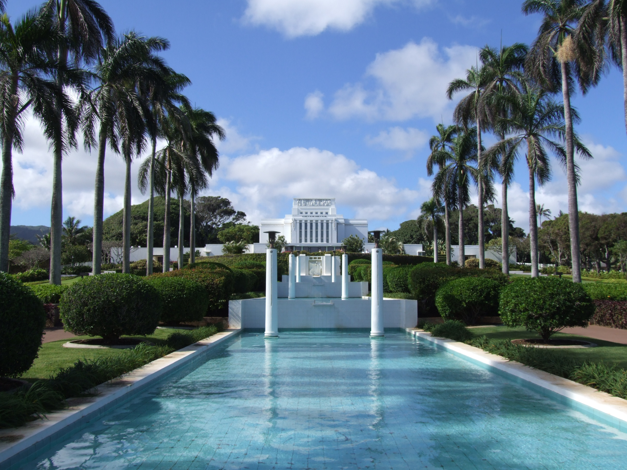 Laie Hawaii Temple, the fifth oldest temple of The Church of Jesus Christ of Latter-day Saints Taken by User:Kaveh, Dec 2006